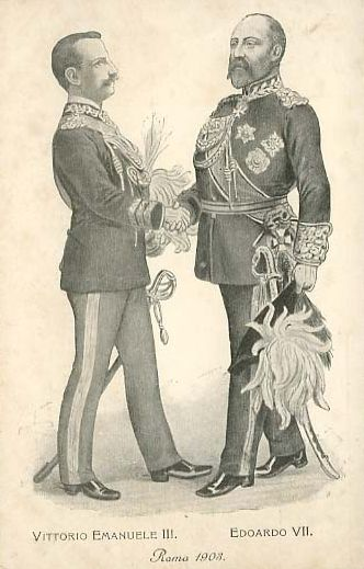 King Vittorio Emanuele III and King Edward VII in Rome 1903